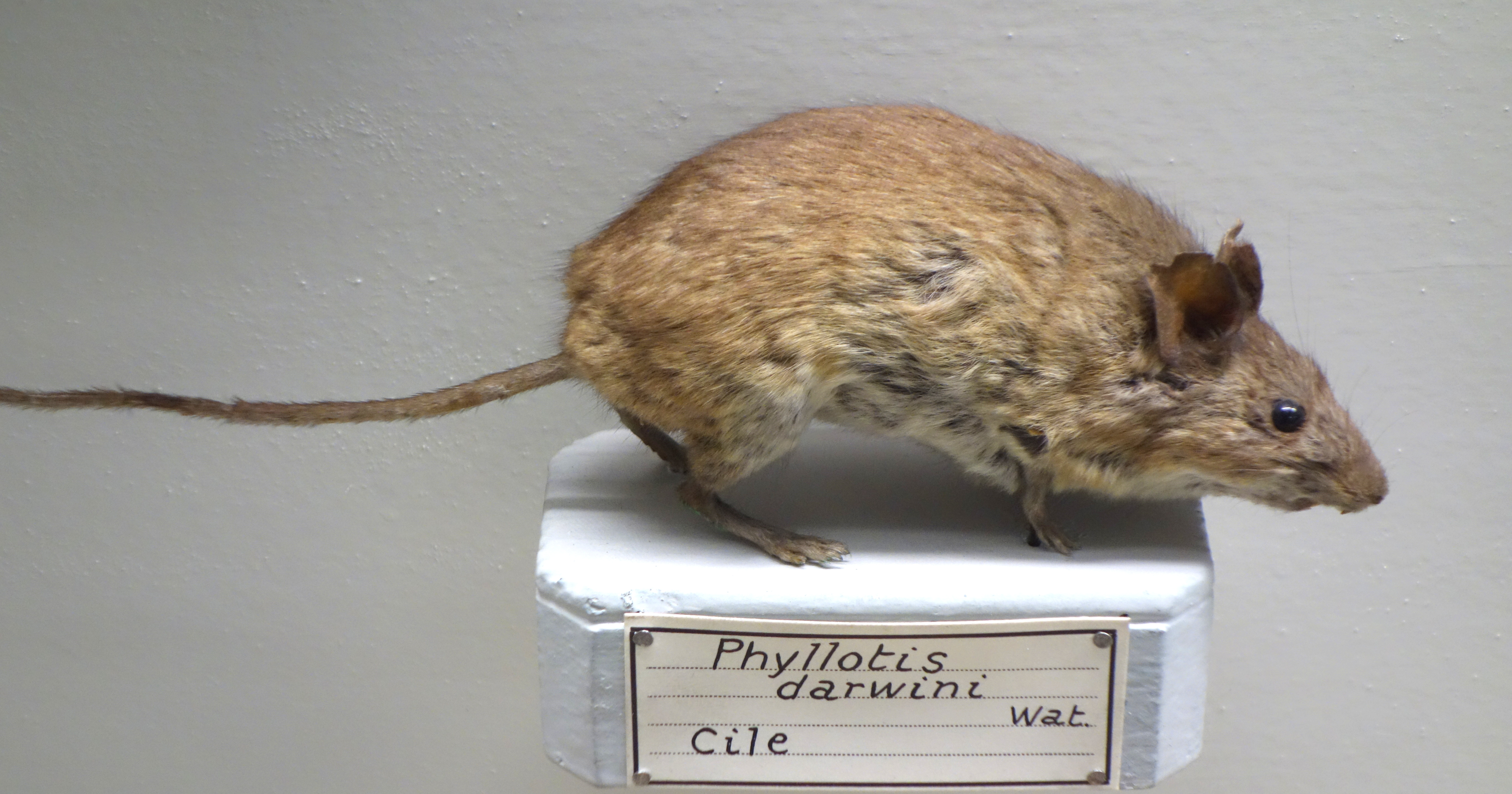 Exhibit in the Museo Civico di Storia Naturale di Genova, Via Brigata Liguria, 9, 16121, Genoa, Italy.